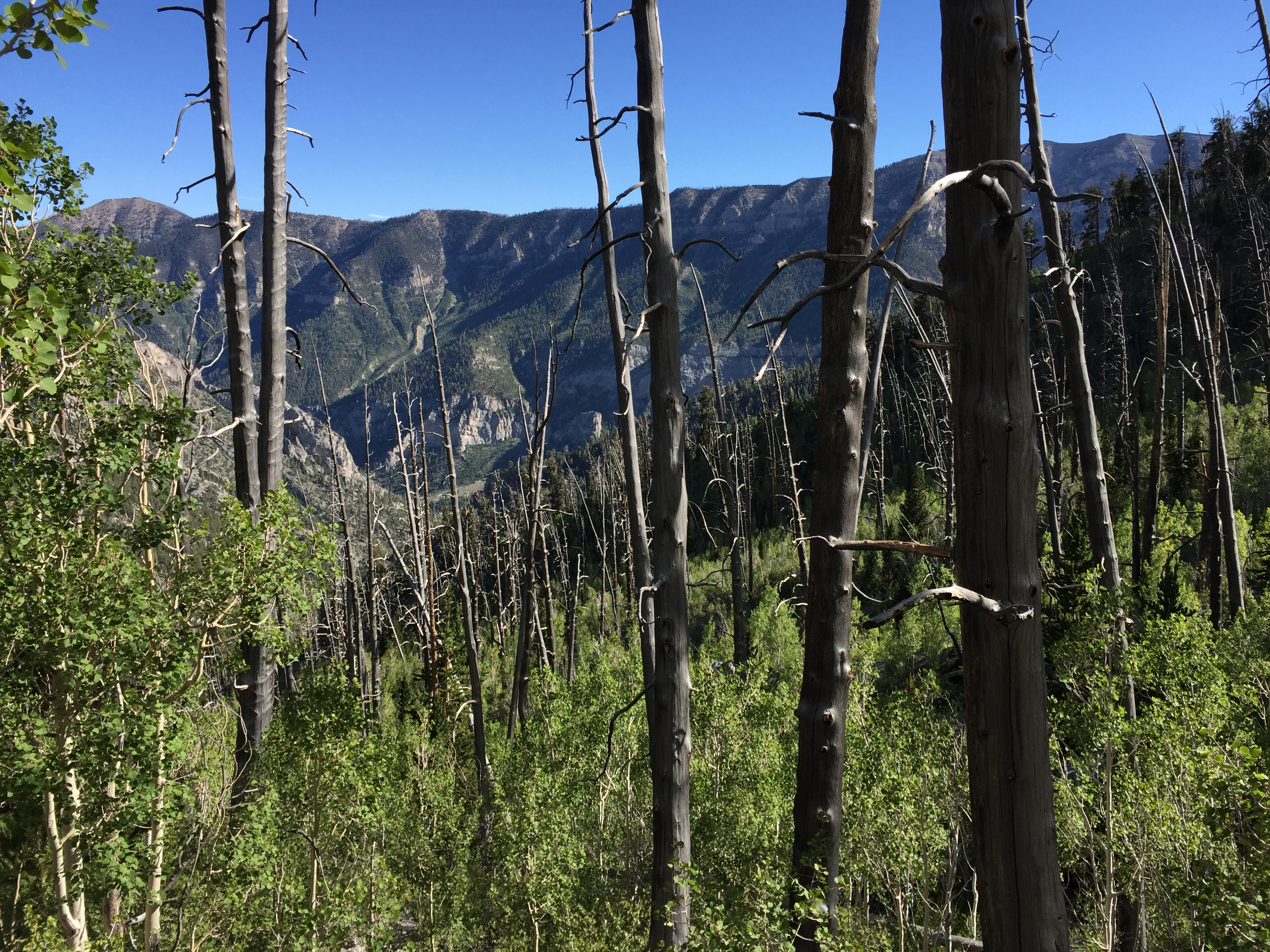 View through a forest of burned trees and Aspen sprouts along the North Loop Trail about 4.7 miles west of the trailhead in the Mount Charleston Wilderness, Nevada